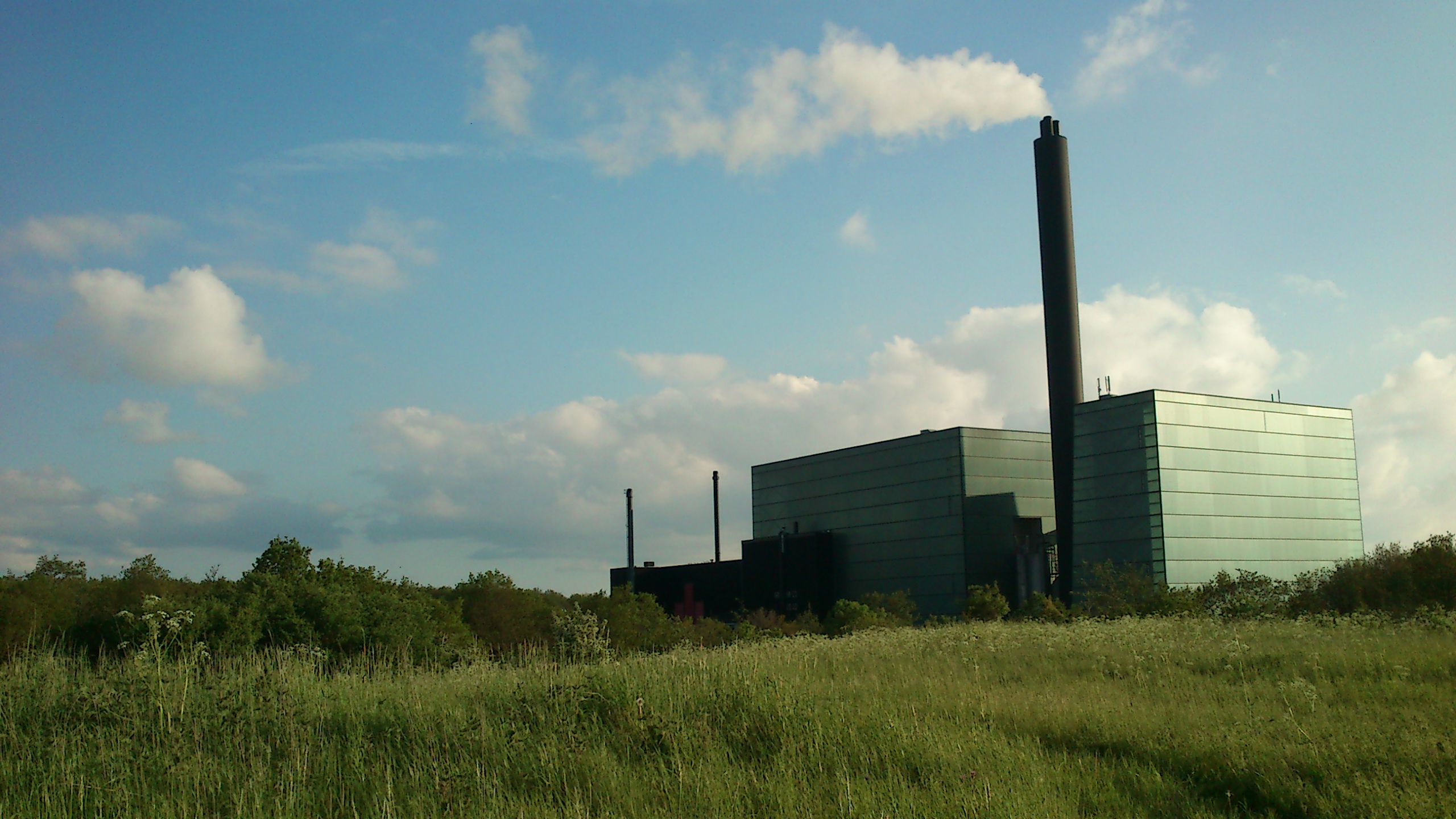 Lisbjerg Forbrændingen